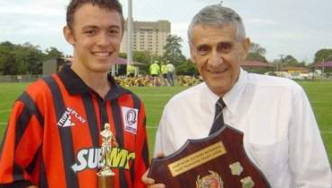 Photo taken on cup day as he wqas presenting an award